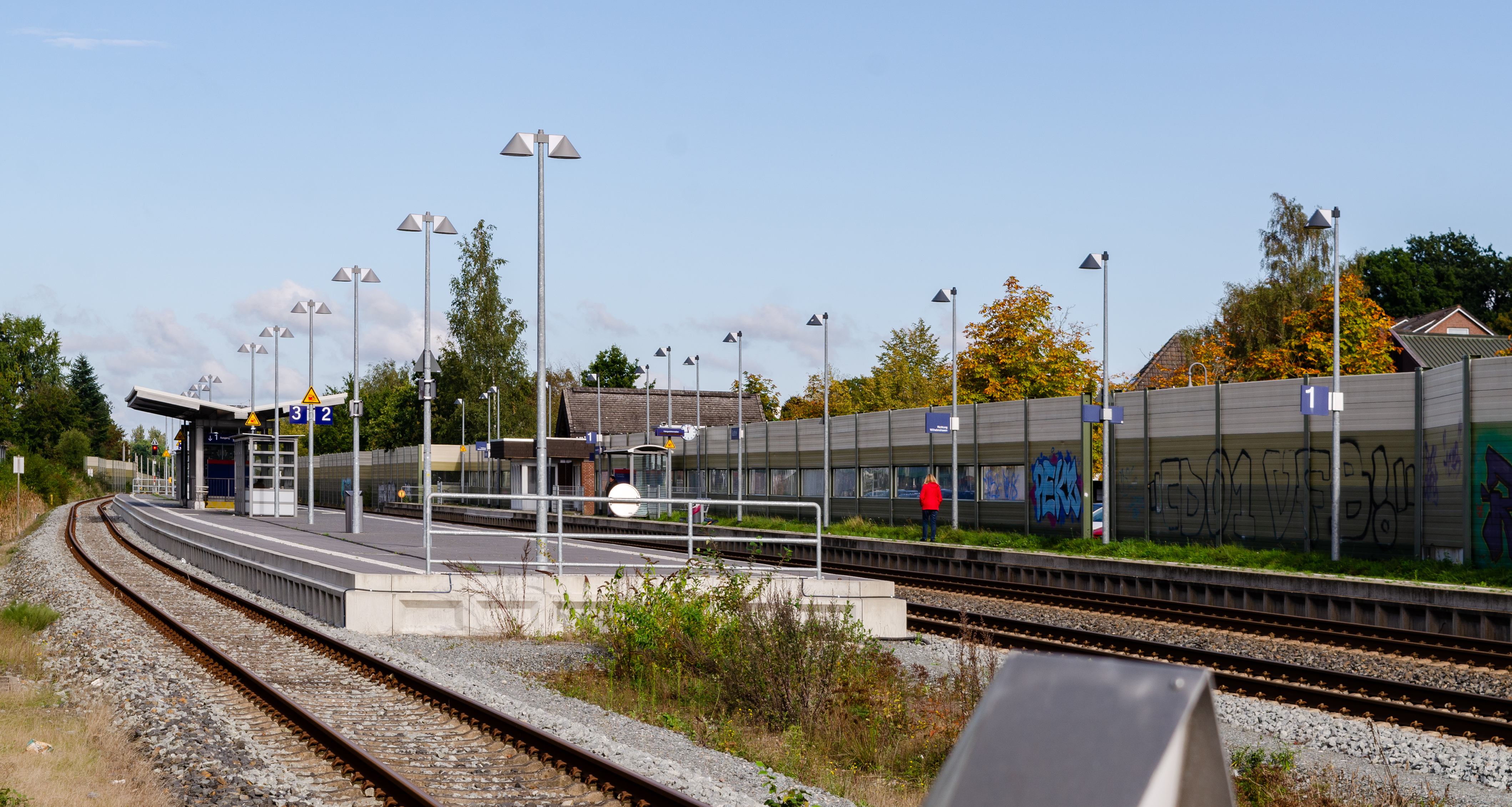 Rastede (Lower Saxony, Germany) – railway station – platforms from the south